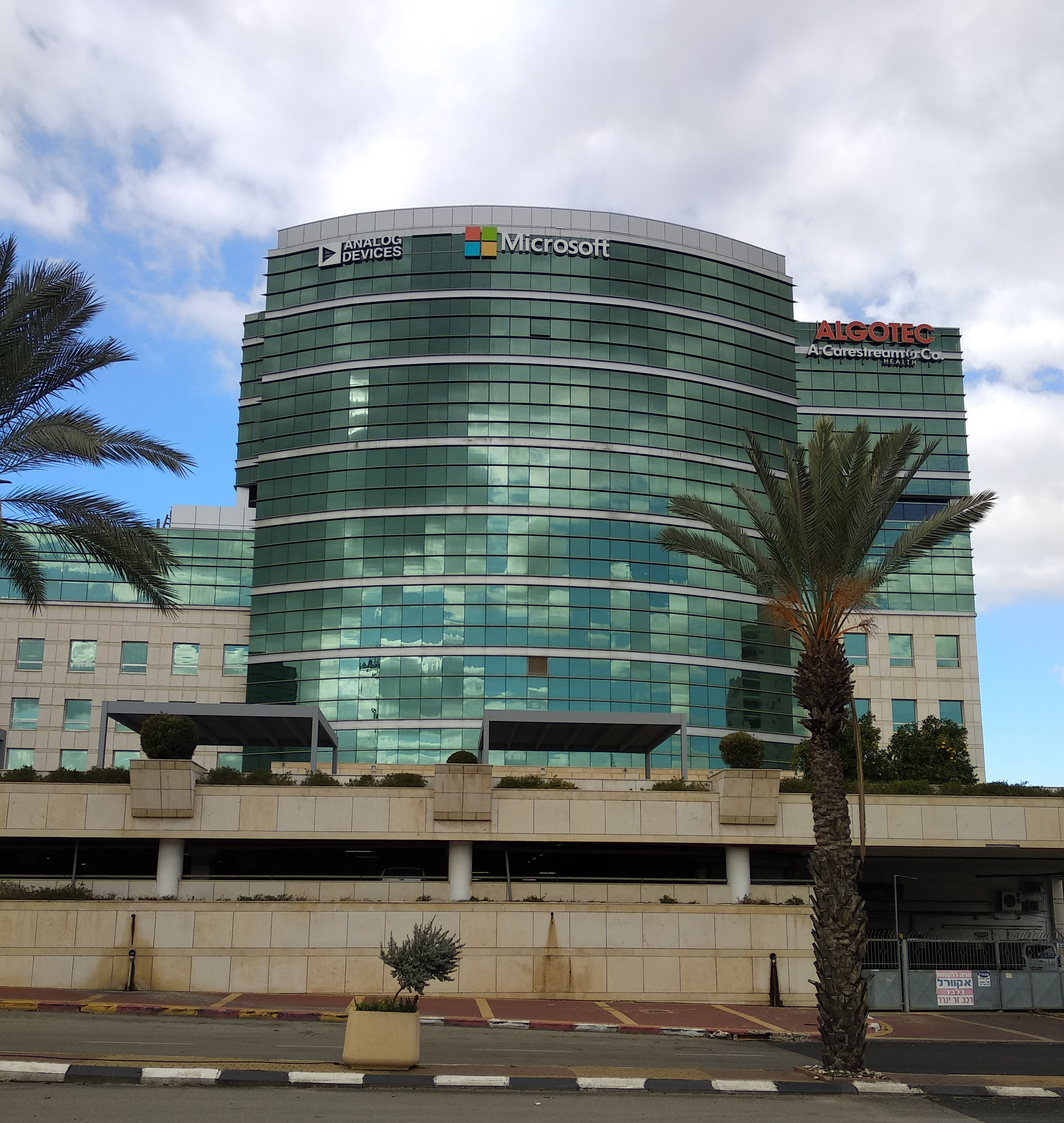 Microsoft Israel HQ, Raanana